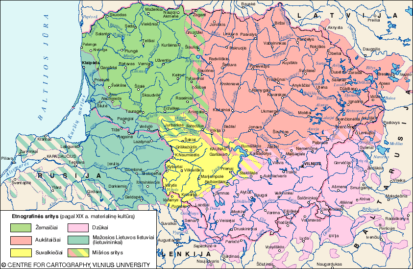 Centre for cartography, Vilnius university